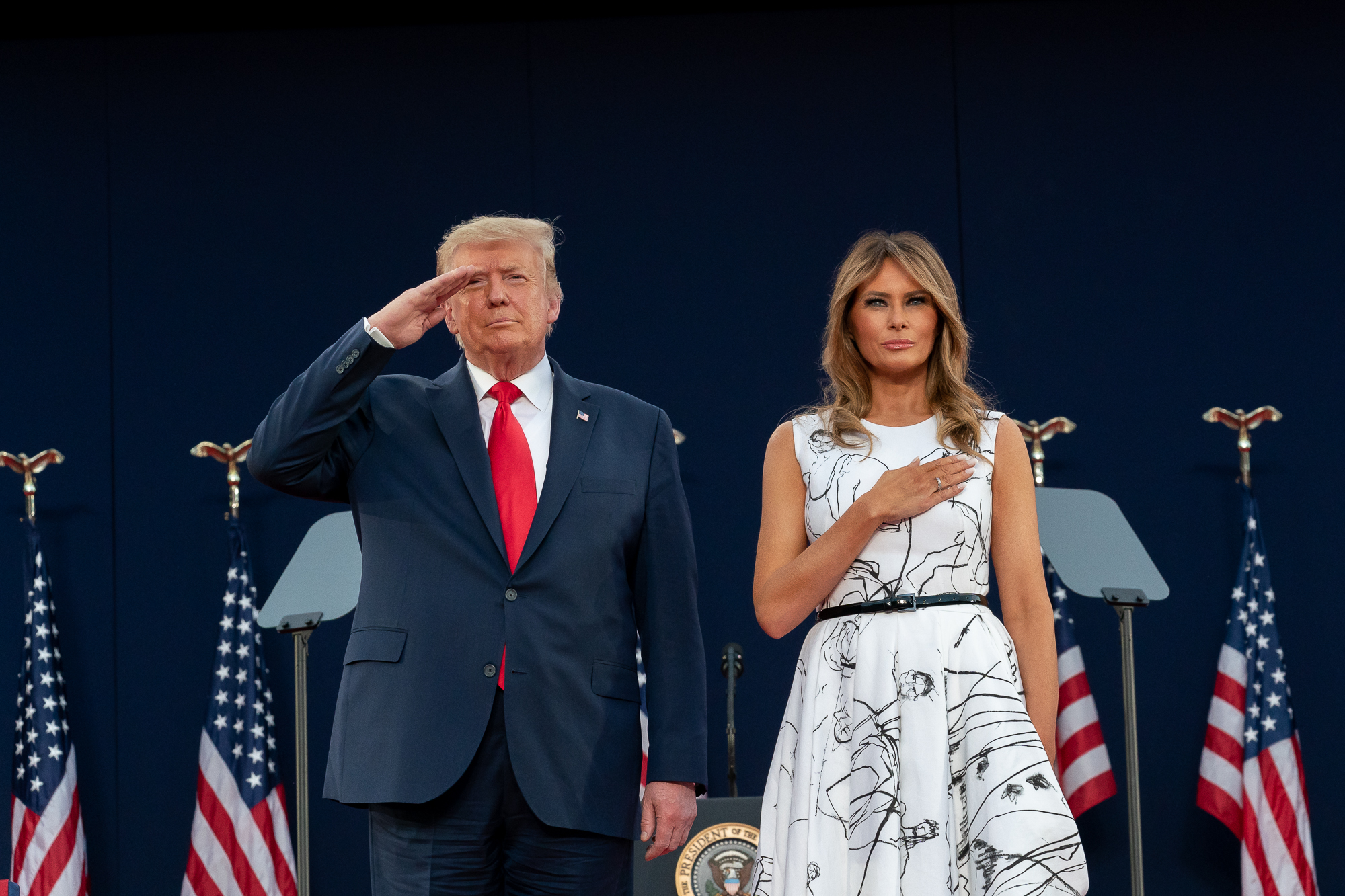 Mount Rushmore Fireworks Celebration